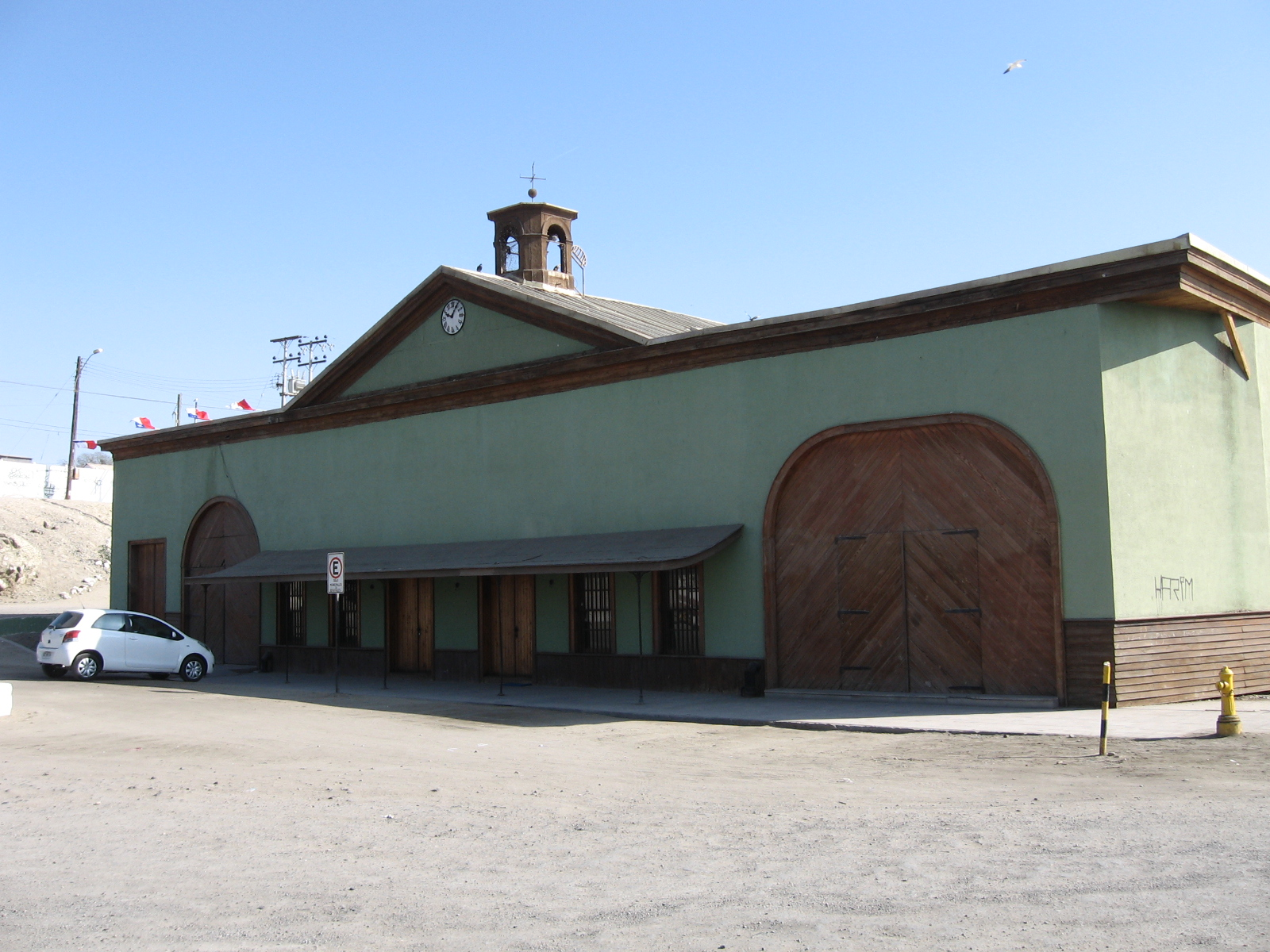 Caldera rail station north entrance.